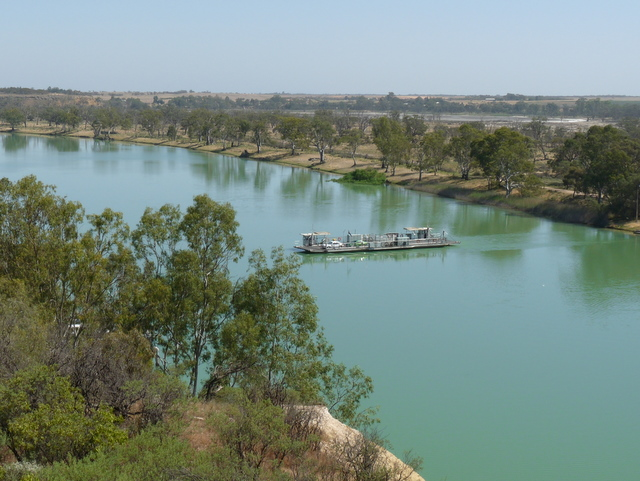 The Waikerie ferry crossing the Murray River from north to south